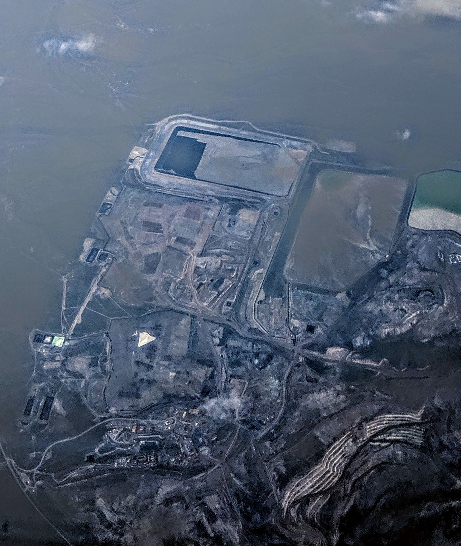 Hazy aerial view from the north of Gold Quarry mine, Nevada